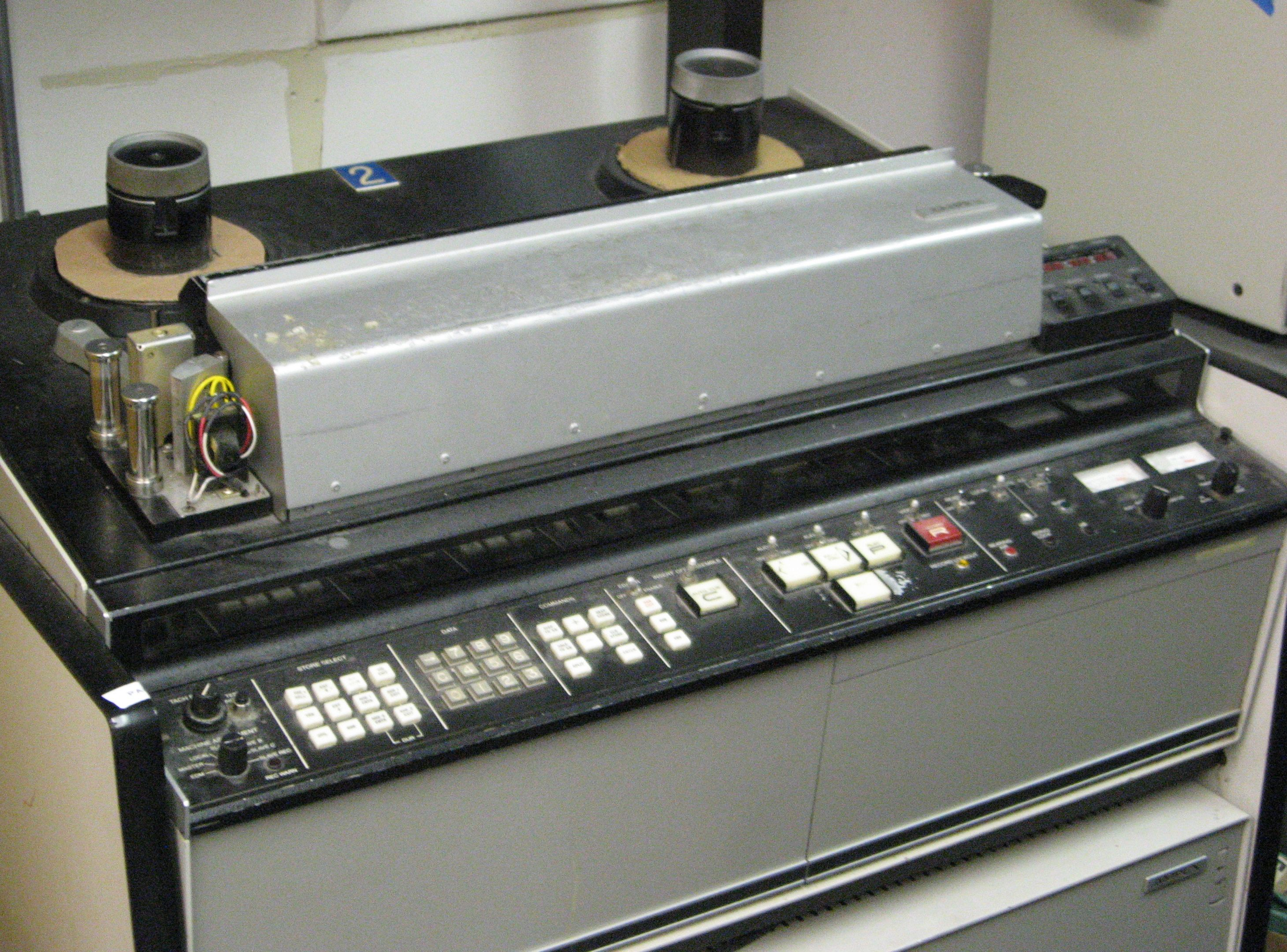 Telecineguy Ampex AVR2 Quad VTR at DC Video Burbank, Ca USA My Own Work